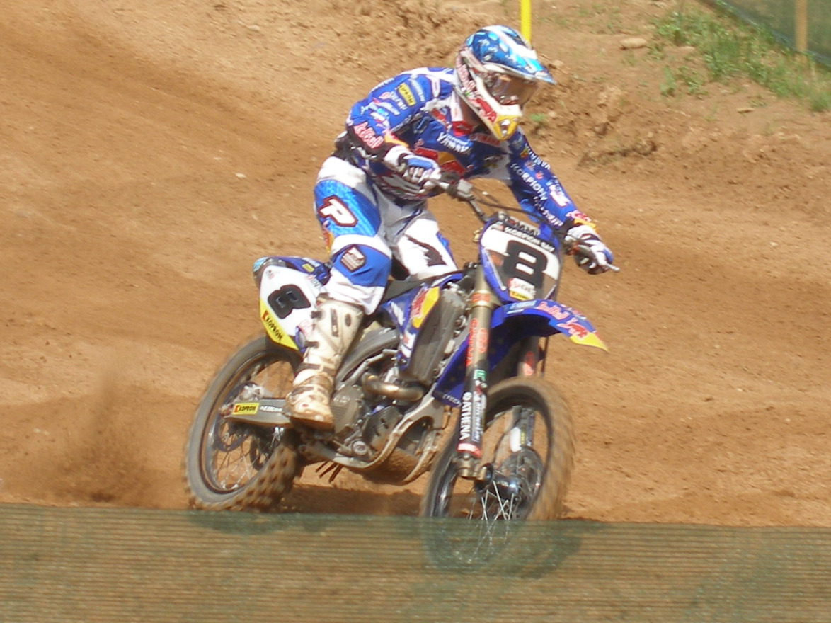 Tanel Leok in 2009 Grand Prix of Latvia, Kegums